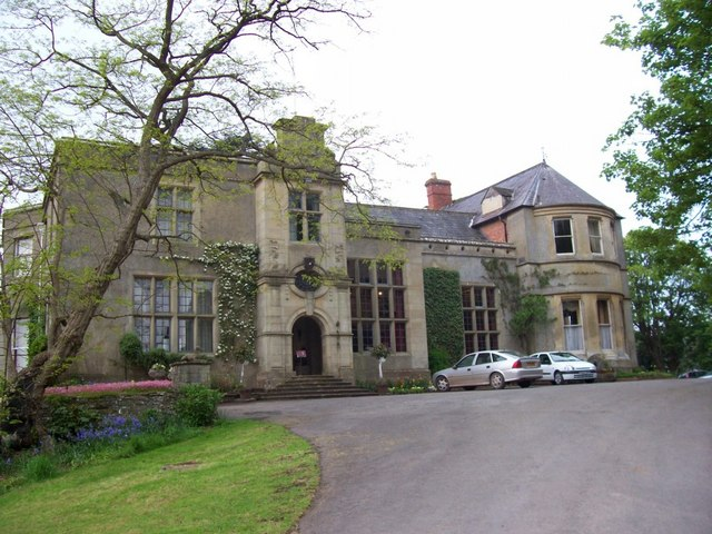 Burton Court. Presumably once a house, Burton Court is now a hotel and conference centre.